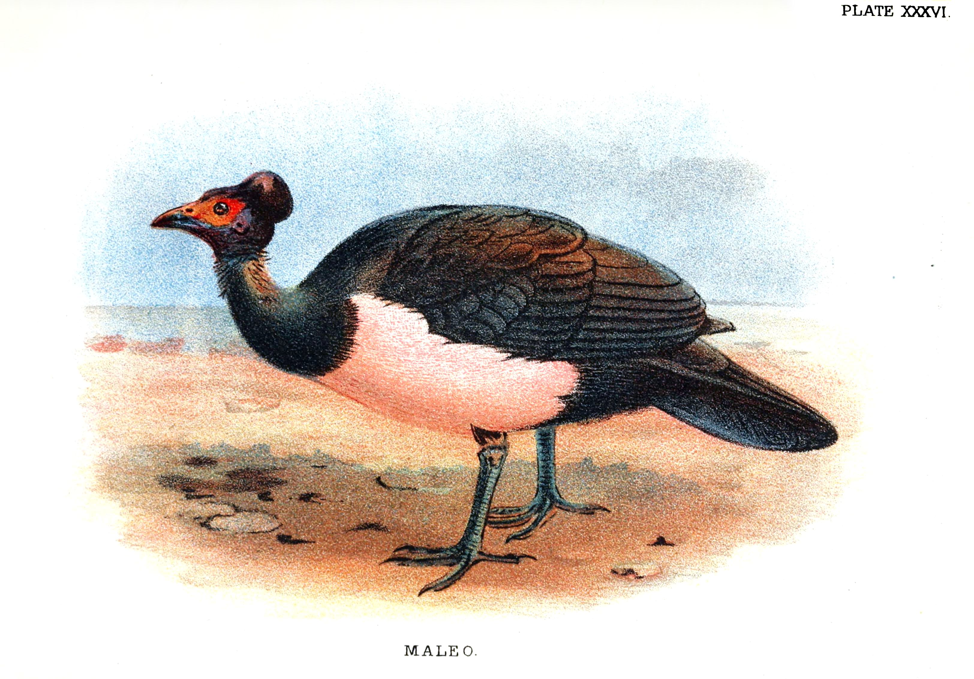 antique lithograph Print of "MALEO (Celebes, Sanghir Islands, Indonesia)" published in 1896 for "Lloyd's Natural History of Game Birds" by W.R.Ogilvie-Grant. Real size of printed area is 5" x 7" (13x18cm).